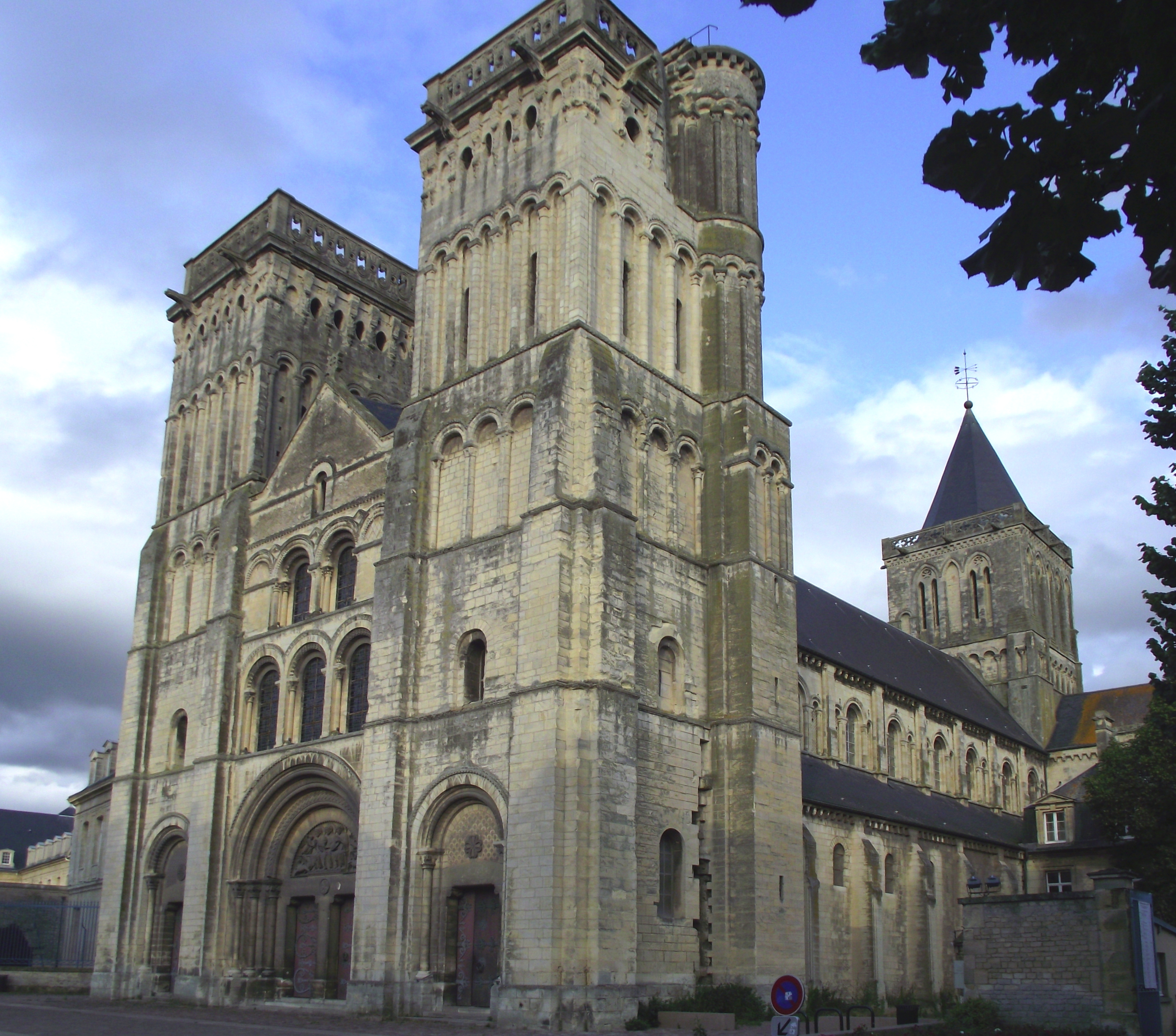 Caen, Trinity Church, XI Century